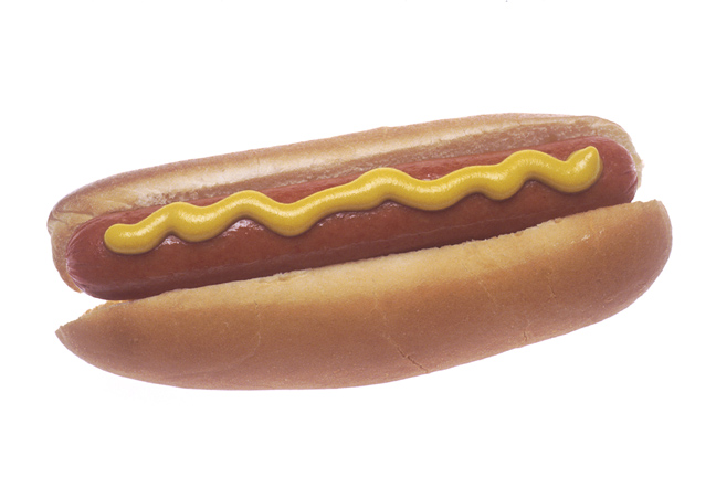 A hot dog.